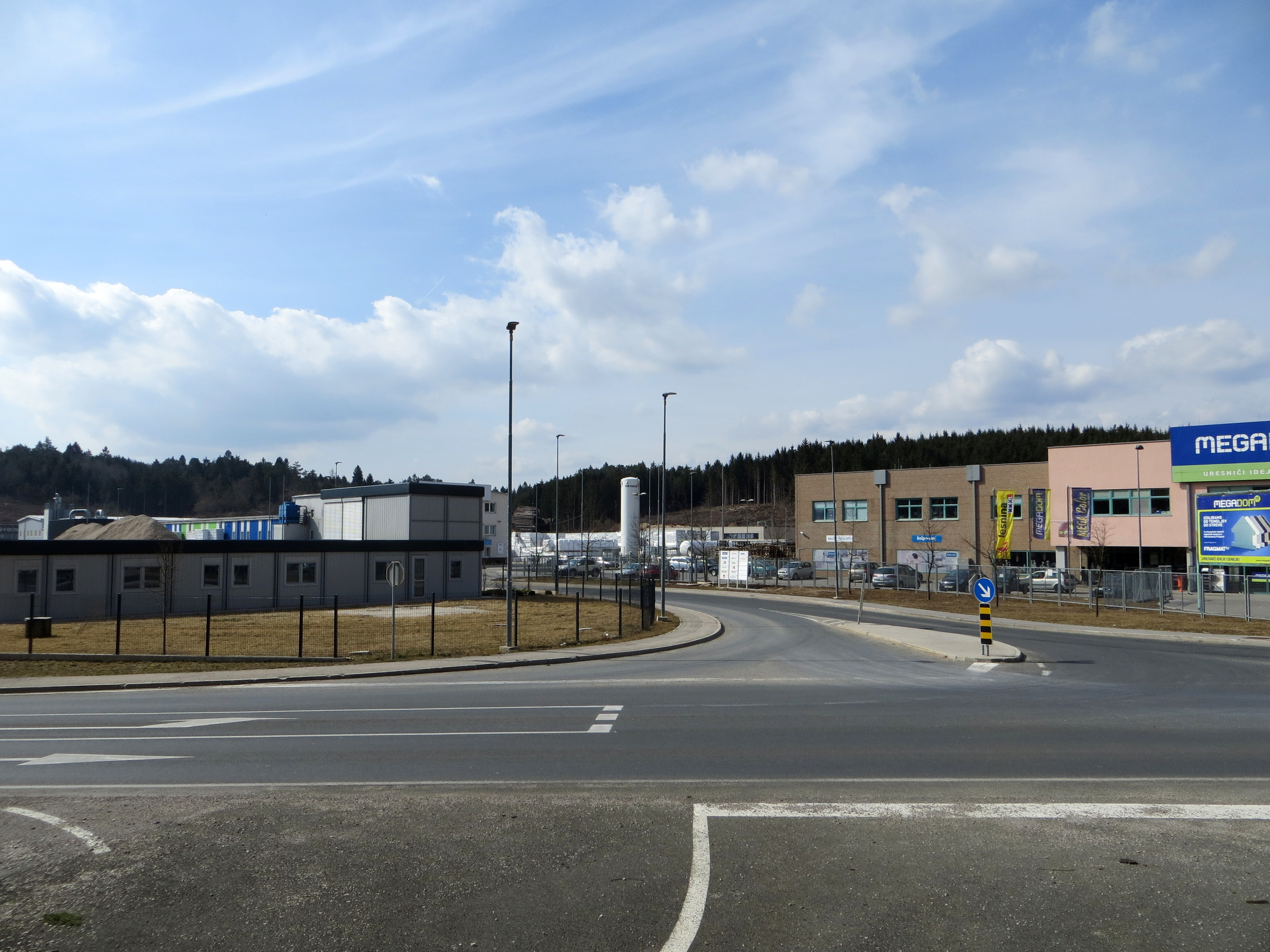 Krive Doli (site of a former military installation and liquidation center for political opponents) in Podskrajnik, Municipality of Cerknica, Slovenia